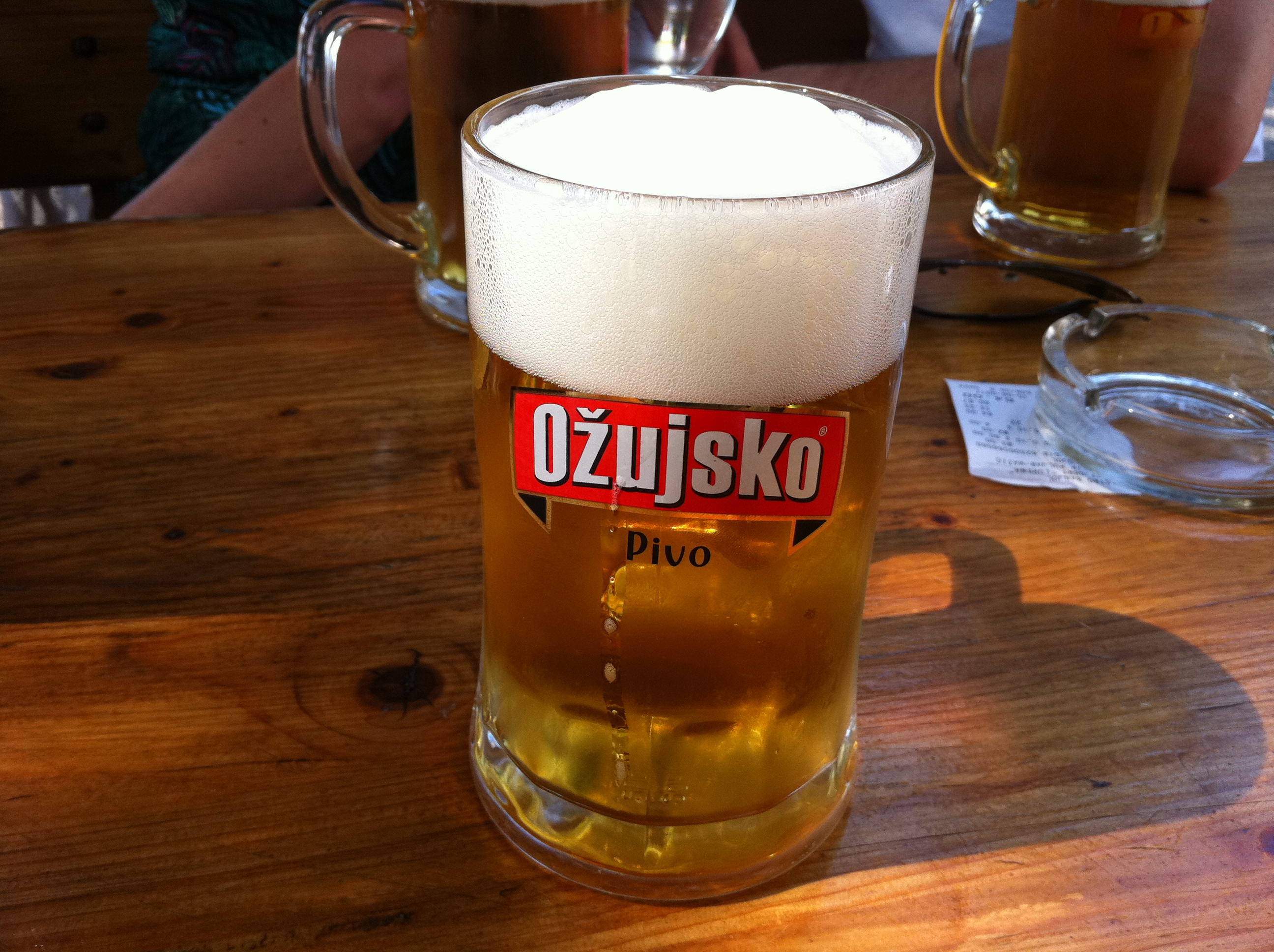 Ožujsko beer, Rab Town.